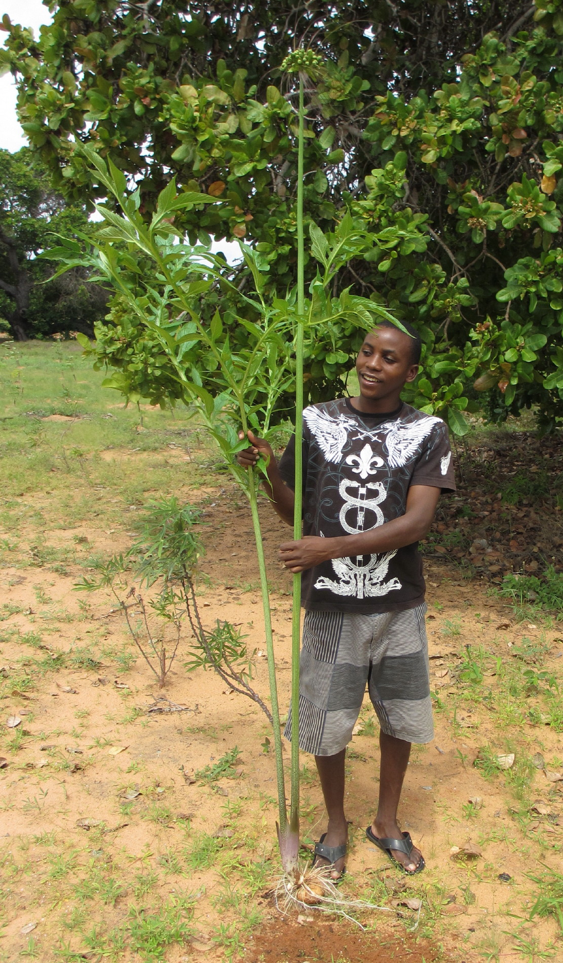 Here with Obet Jose Baptista, about 160 cm tall. The tubers are poisonous but an edible starch is sometimes extracted in times of food scarcity. Here close to Pemba town, growing in abundance in a sandy soil close to the coast.